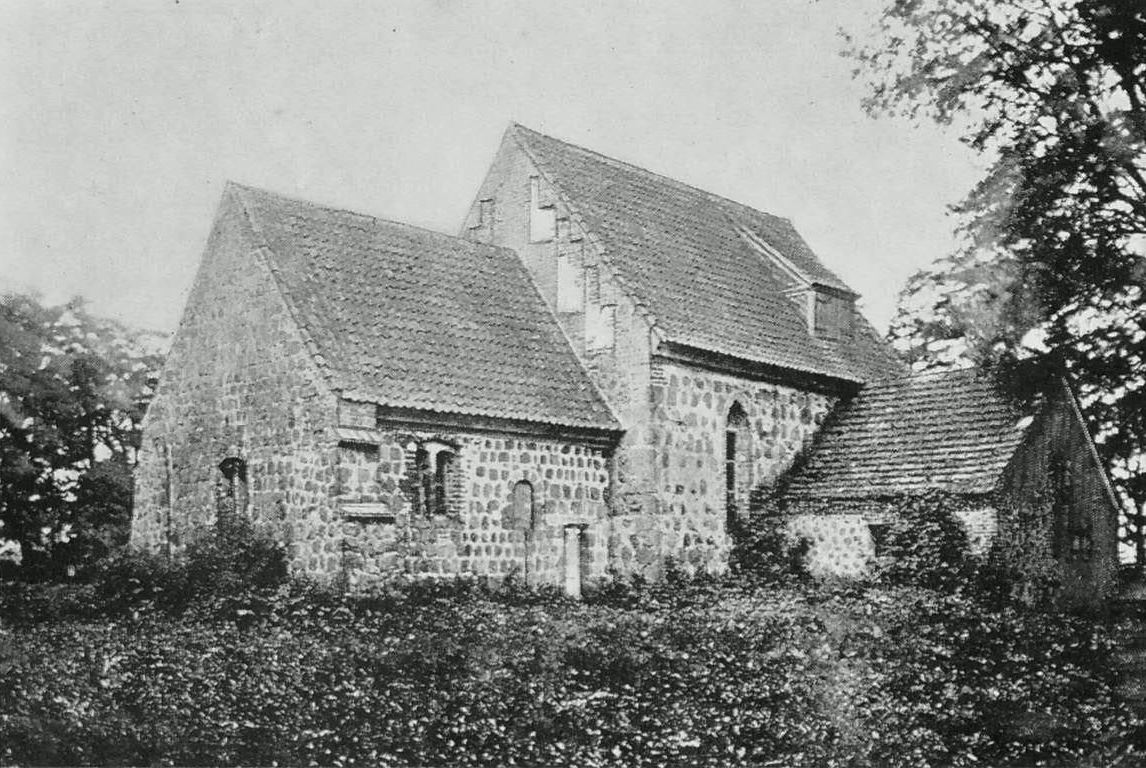 before reconstruction, from the year 1895